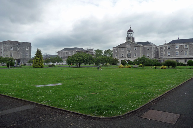 Former Royal Naval Hospital, High Street, Plymouth